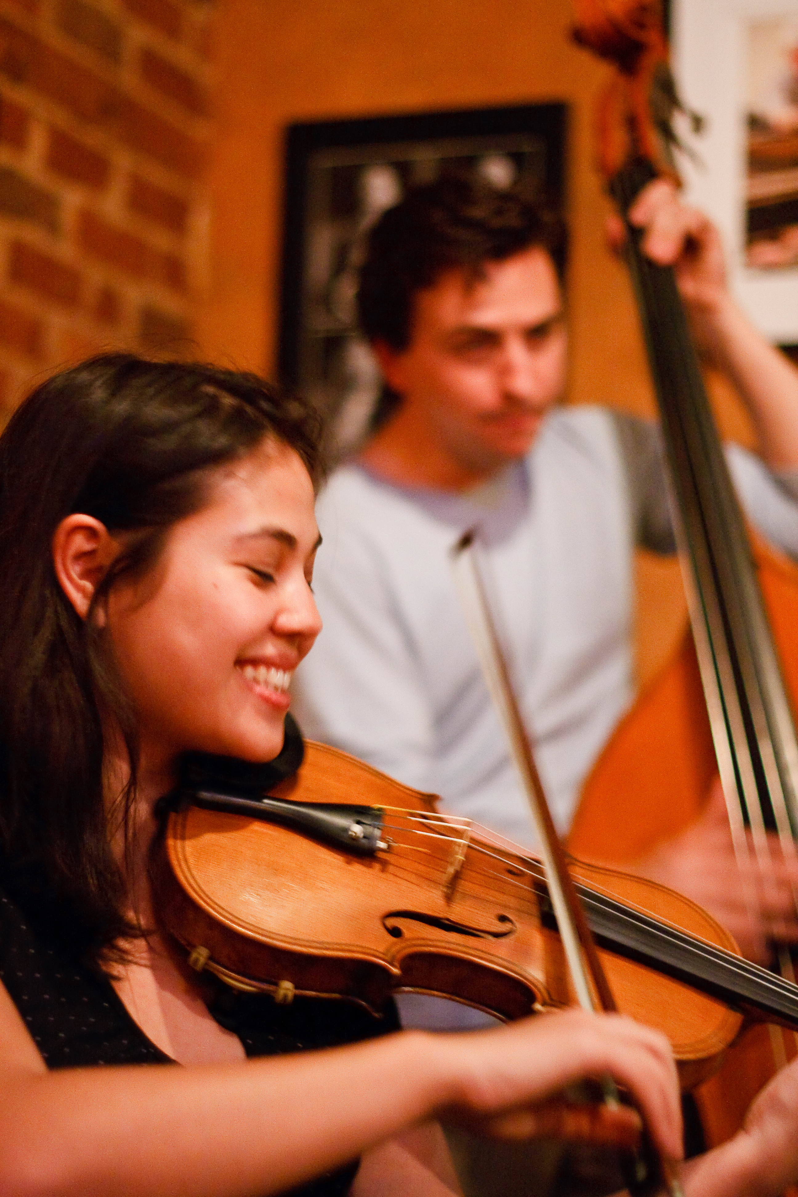 Mary Simpson plays fiddle with her group, Whiskey Rebellion, at 'Americana Night' April 20, 2009; Fellini's #9 restaurant, Charlottesville, Virginia.